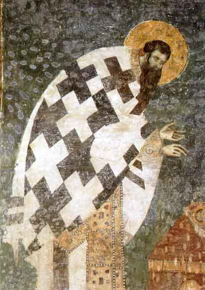 Fresco of the saint Basil the Great, Bogorodica Ljeviška (Our Lady of Ljevish), Kosovo and Metohia, Serbia